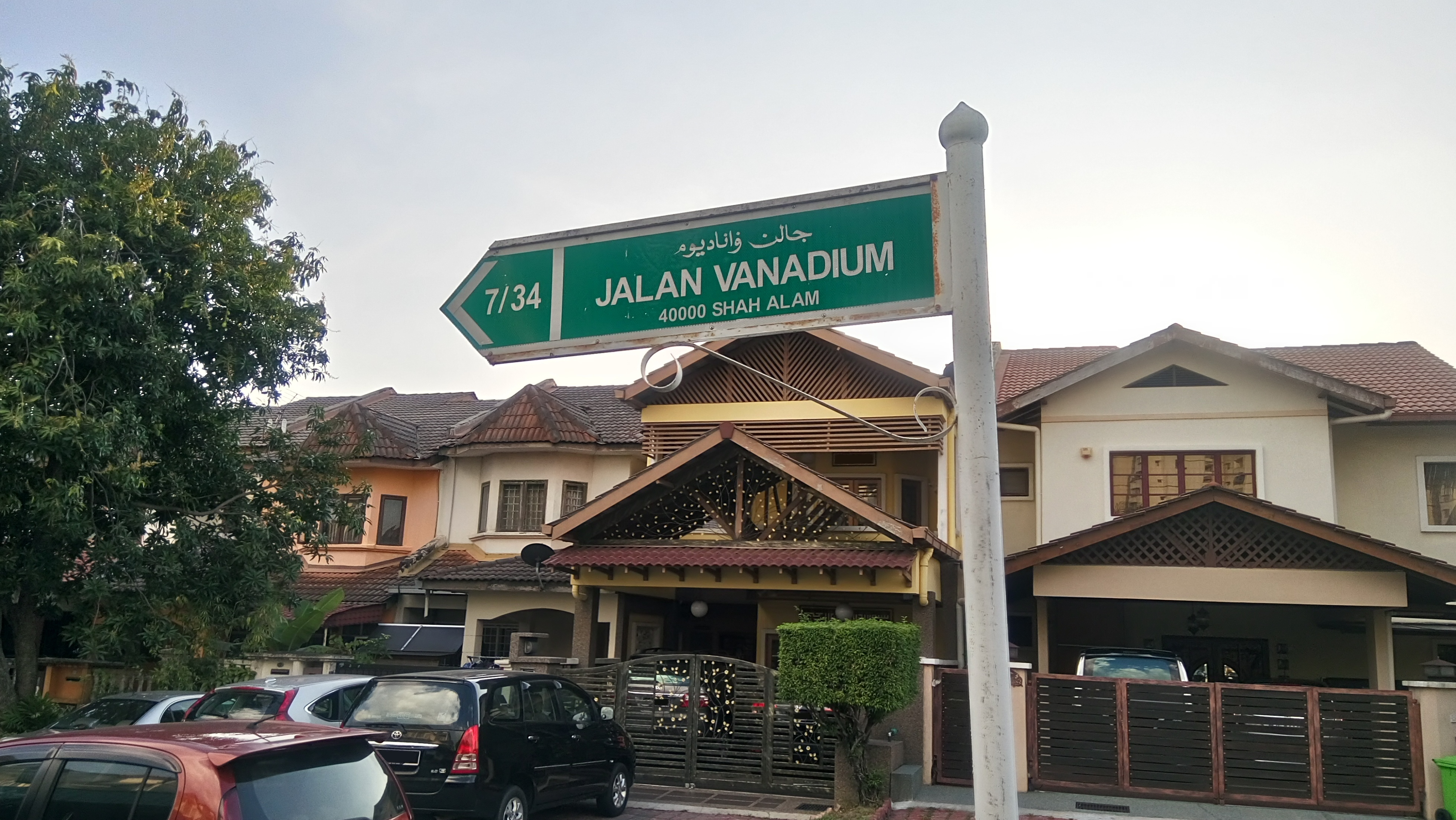 Road name signage of Jalan Vanadium 7/34, Seksyen 7, Shah Alam. The road name is written in both Jawi and Rumi script as required by the law of the state of Selangor. This is a retouched picture, which means that it has been digitally altered from its original version. Modifications: The picture is edited to remove personally identifiable element, in this case the license plates of the three cars and the name on wooden board at the house.